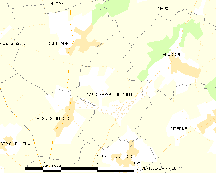 Map of French municipality Vaux-Marquenneville